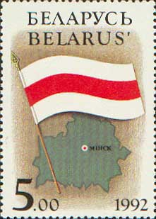 Stemp Flag and map of Belarus 1992